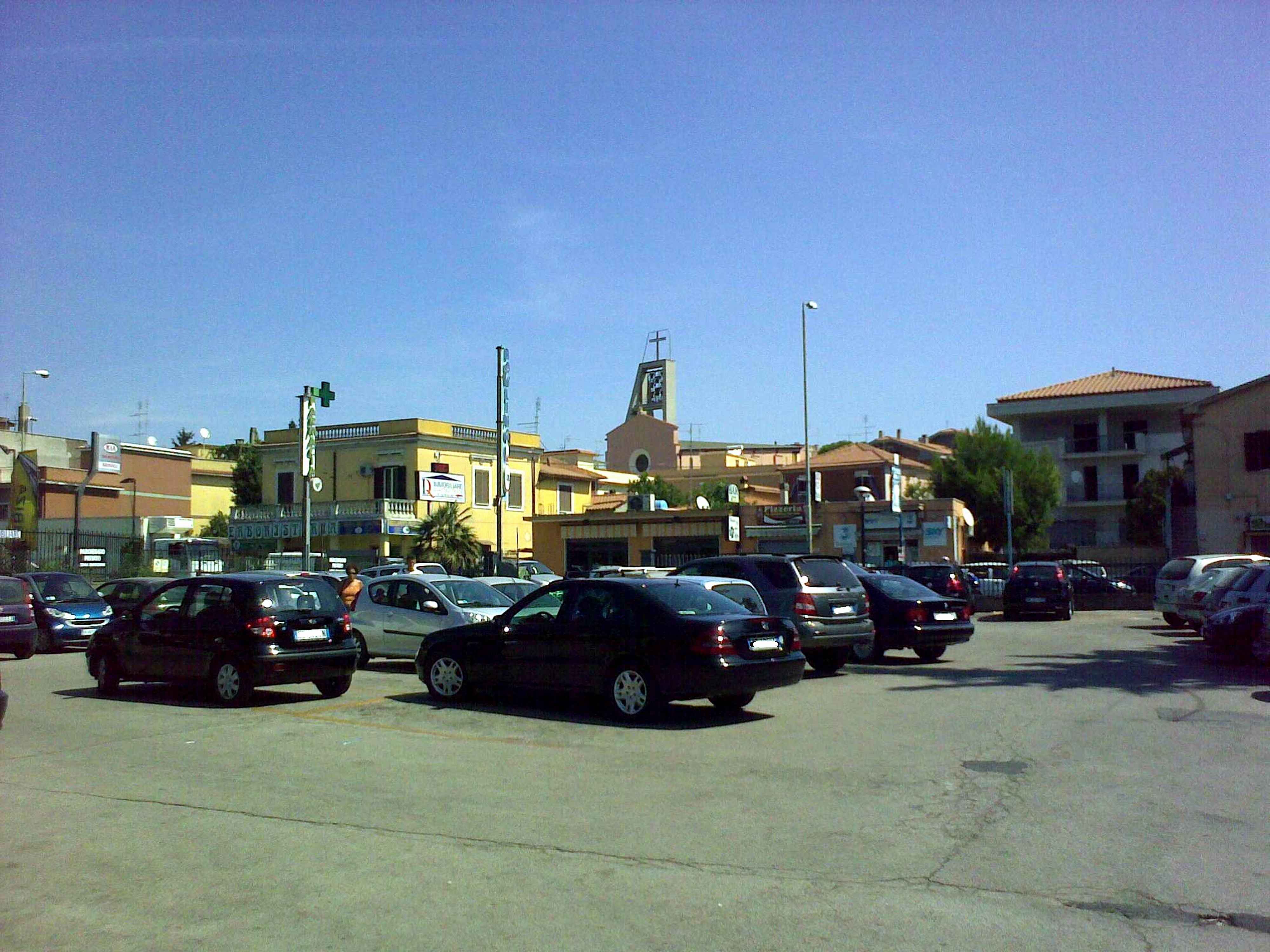 Pavona-Laghetto Castel Gandolfo